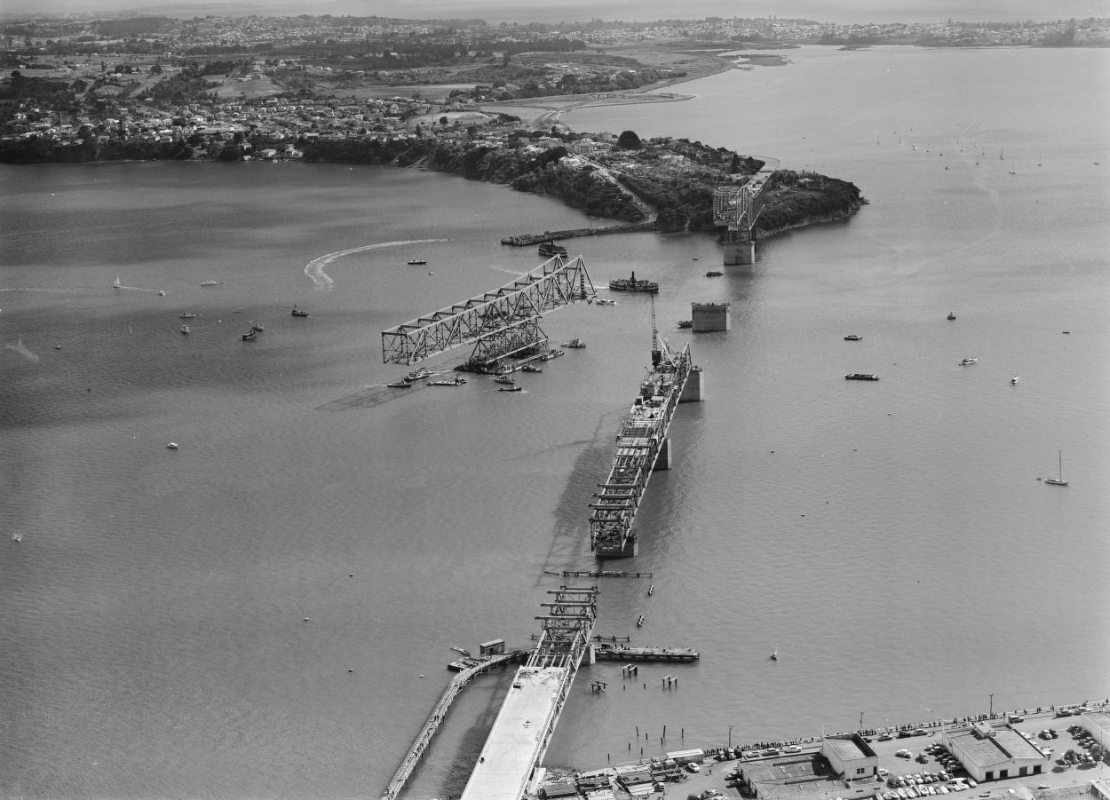 Looking north over the construction site of the Auckland Harbour Bridge. One of the middle spans is being floated into place on a barge. Coordinates approximate, but reasonably exact, likely somewhere above Point Erin. Extended information on origin webpage reads: Aerial view of the Auckland Harbour bridge under construction, 29 November 1958. Photograph taken by Whites Aviation